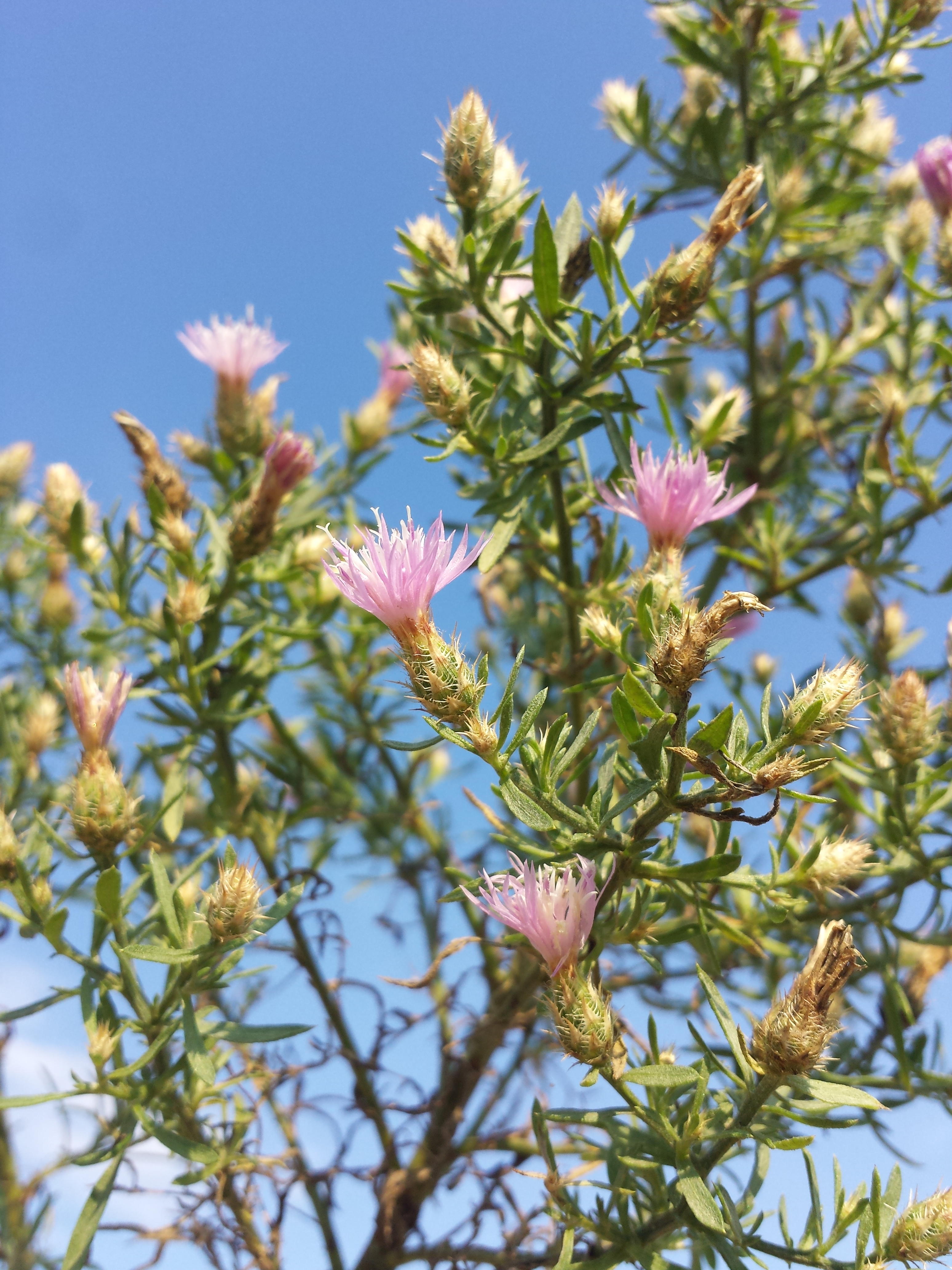 Inflorescence Taxonym: Centaurea diffusa ss Fischer et al. EfÖLS 2008 ISBN 978-3-85474-187-9 Location: industrial wasteland Grellgasse, Vienna-Floridsdorf - ca. 160 m a.s.l. Habitat: ruderal area